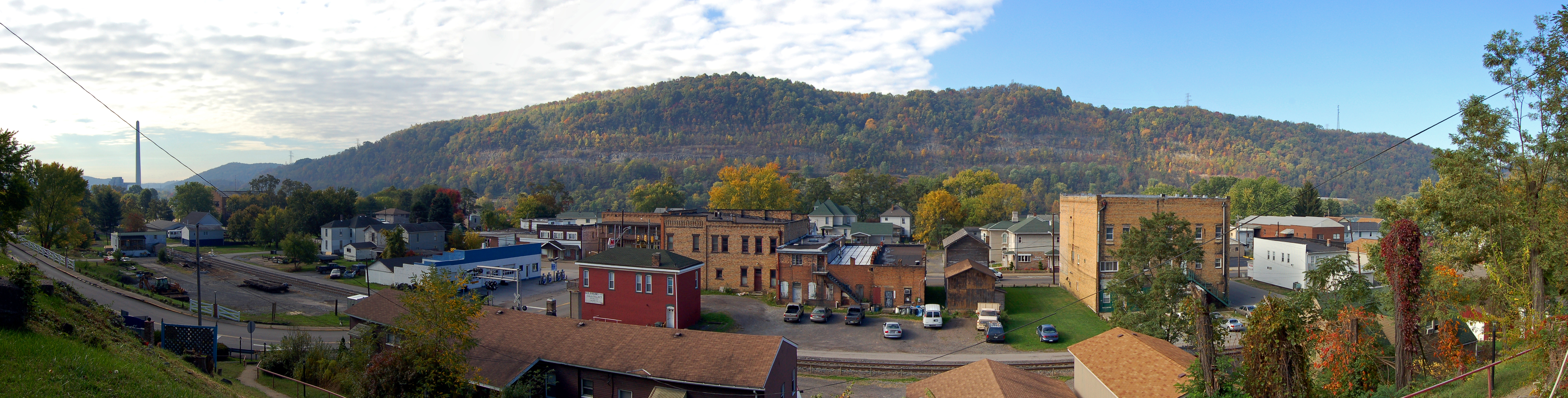 New Cumberland, West Virginia